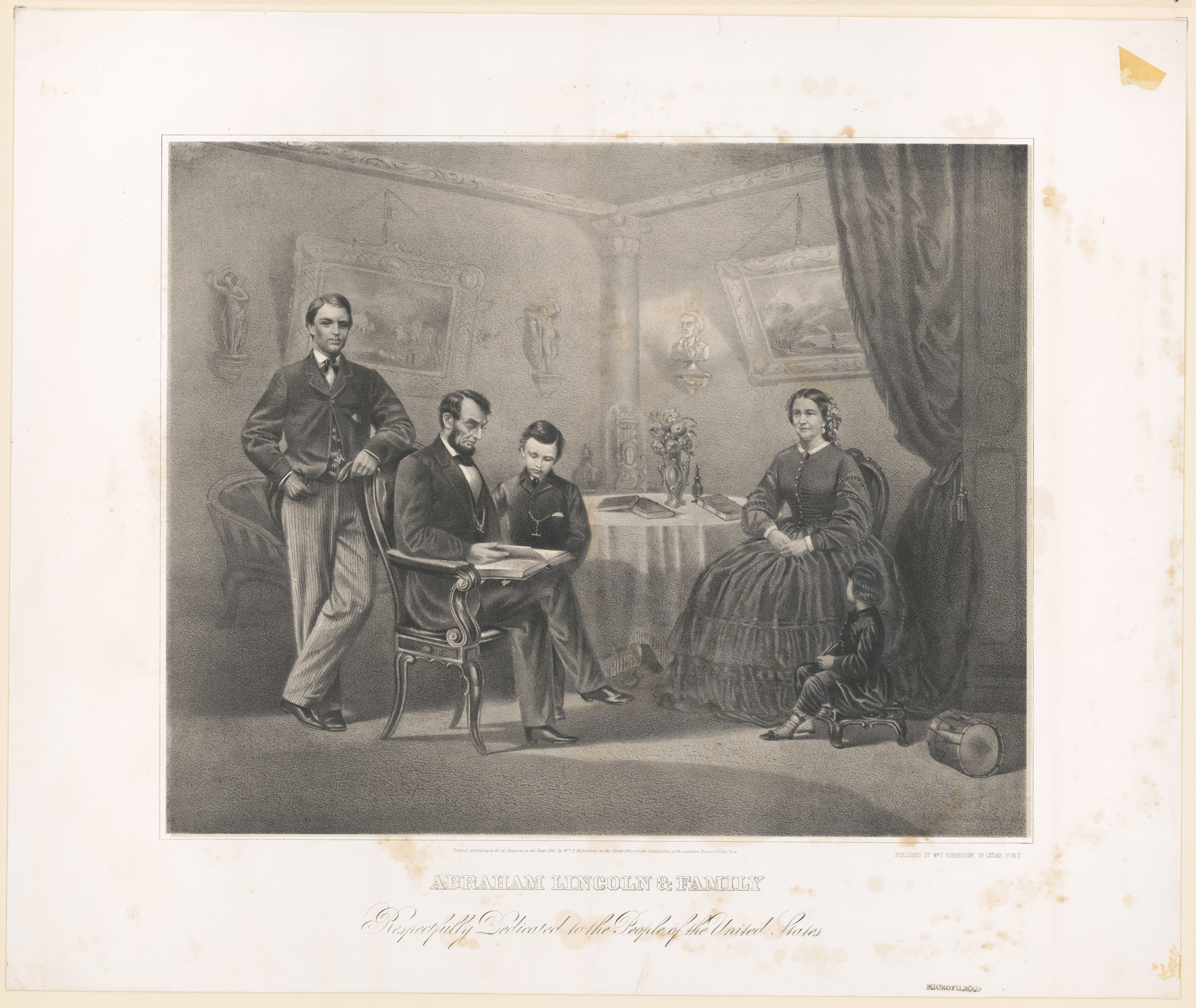 Title: Abraham Lincoln & family Physical description: 1 print. Notes: This record contains unverified data from PGA shelflist card.; Associated name on shelflist card: Robertson, William C.